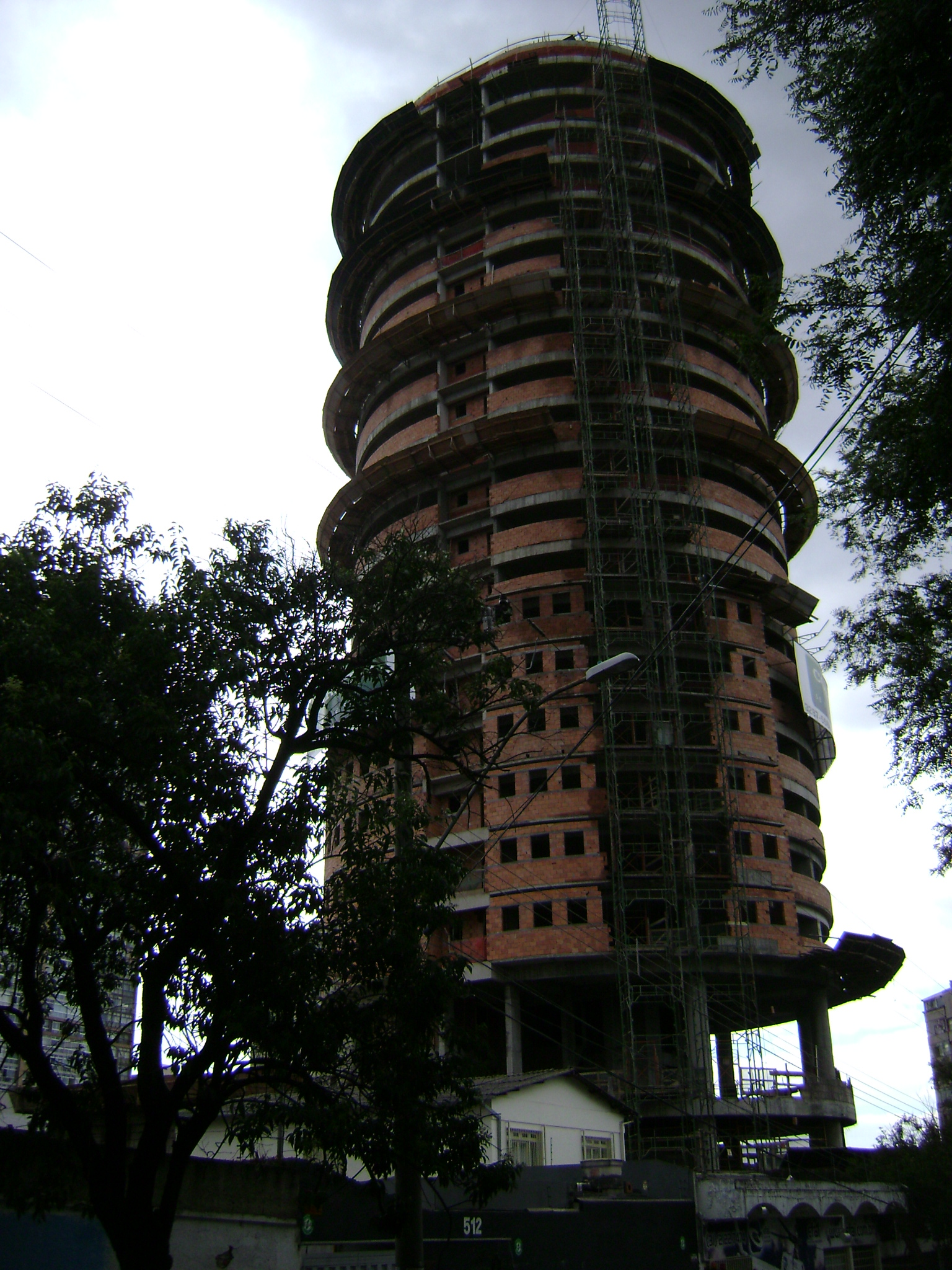 Andaime, em construção de prédio em formato de cilindro, em Belo Horizonte.